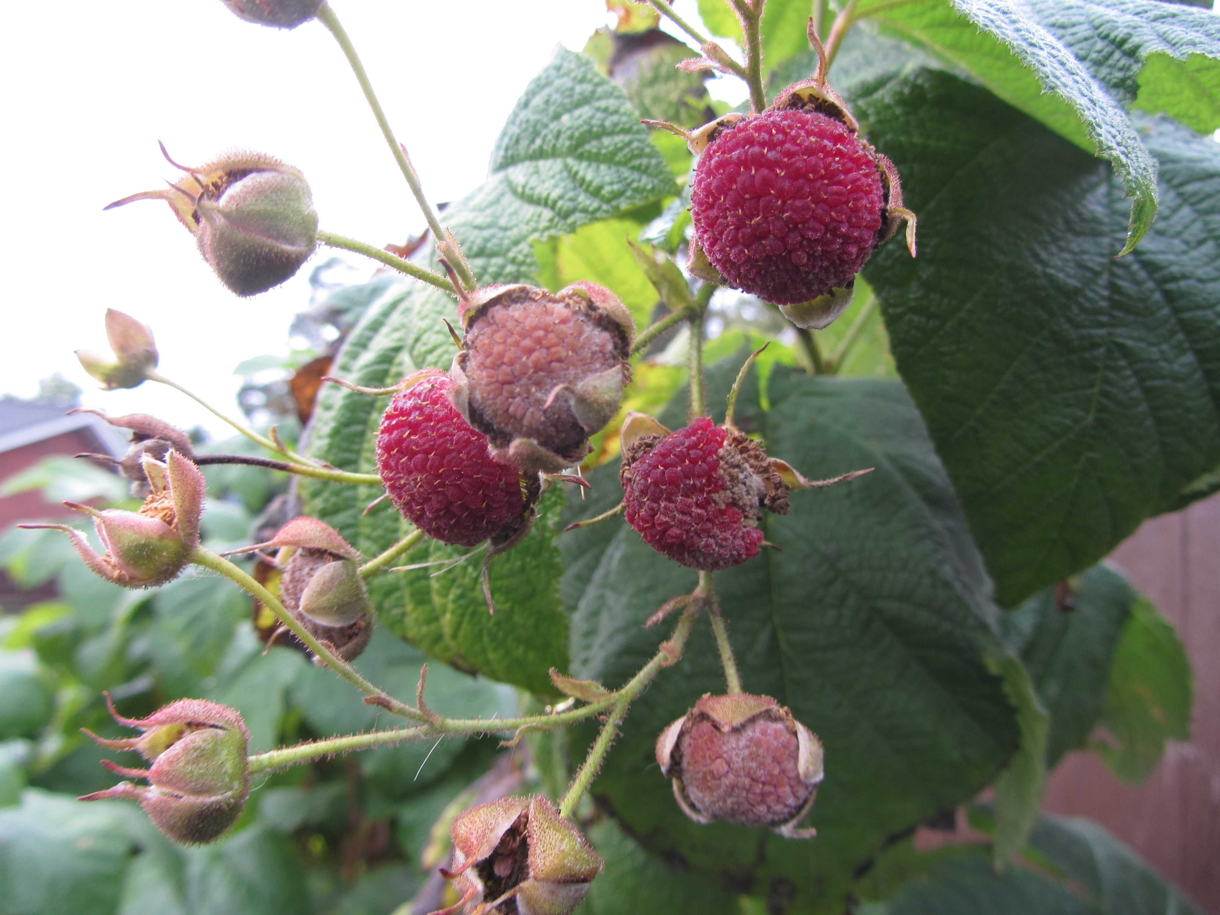 Purple-flowered raspberry fruiting in Kerava, Finland